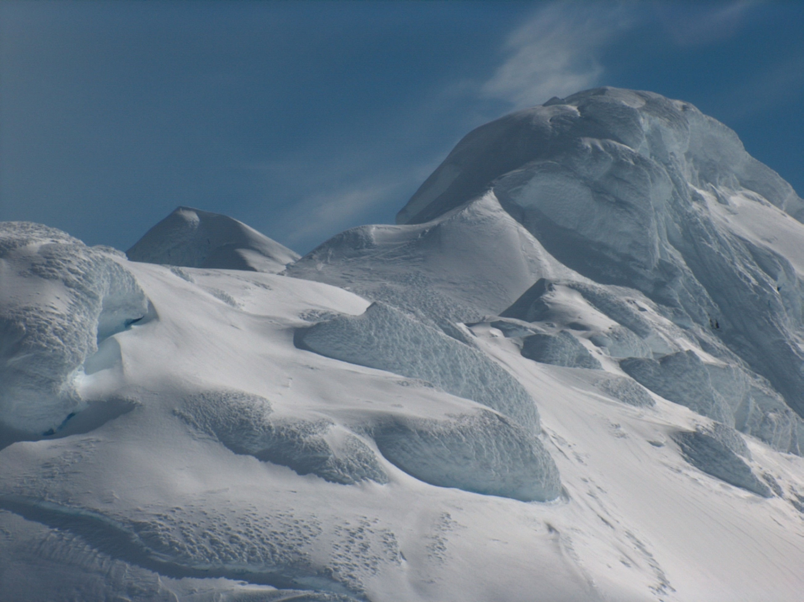 The summit Mount Friesland (1700 m) in Tangra Mountains on Livingston Island in the South Shetland Islands, with Presian Ridge in the foreground, and the ‘Synagogue’ (a rock-cored ice form rising in the saddle between Mount Friesland and St. Boris Peak) in the background. Viewpoint location: West slopes of Lyaskovets Peak in Tangra Mountains on Livingston Island, in the South Shetland Islands Viewpoint elevation: 1380 meters Camera: HP PhotoSmart C945 (V01.54)